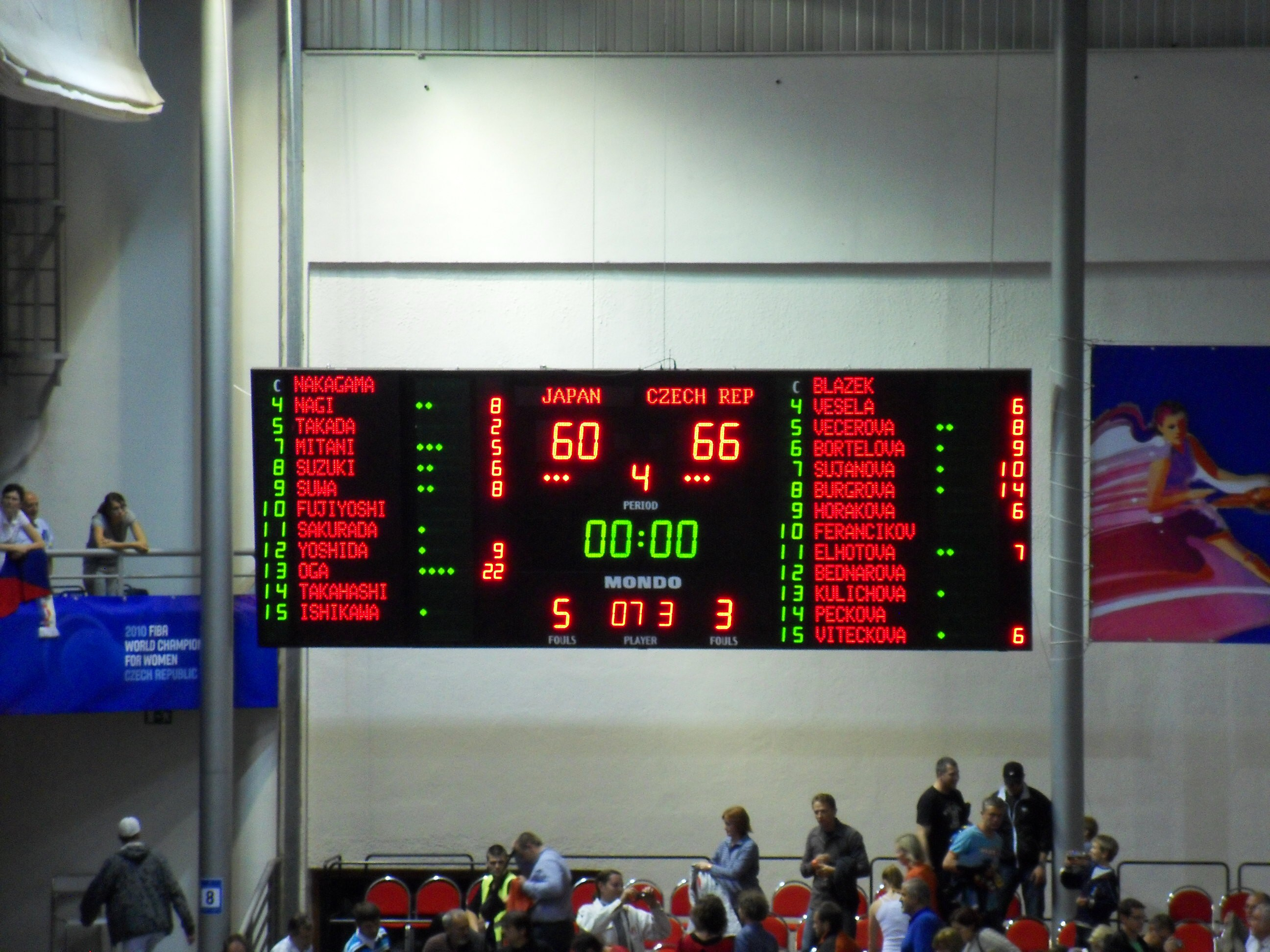 Japan - Czech Republic match at 2010 FIBA World Championship for Women, Brno, Czech Republic